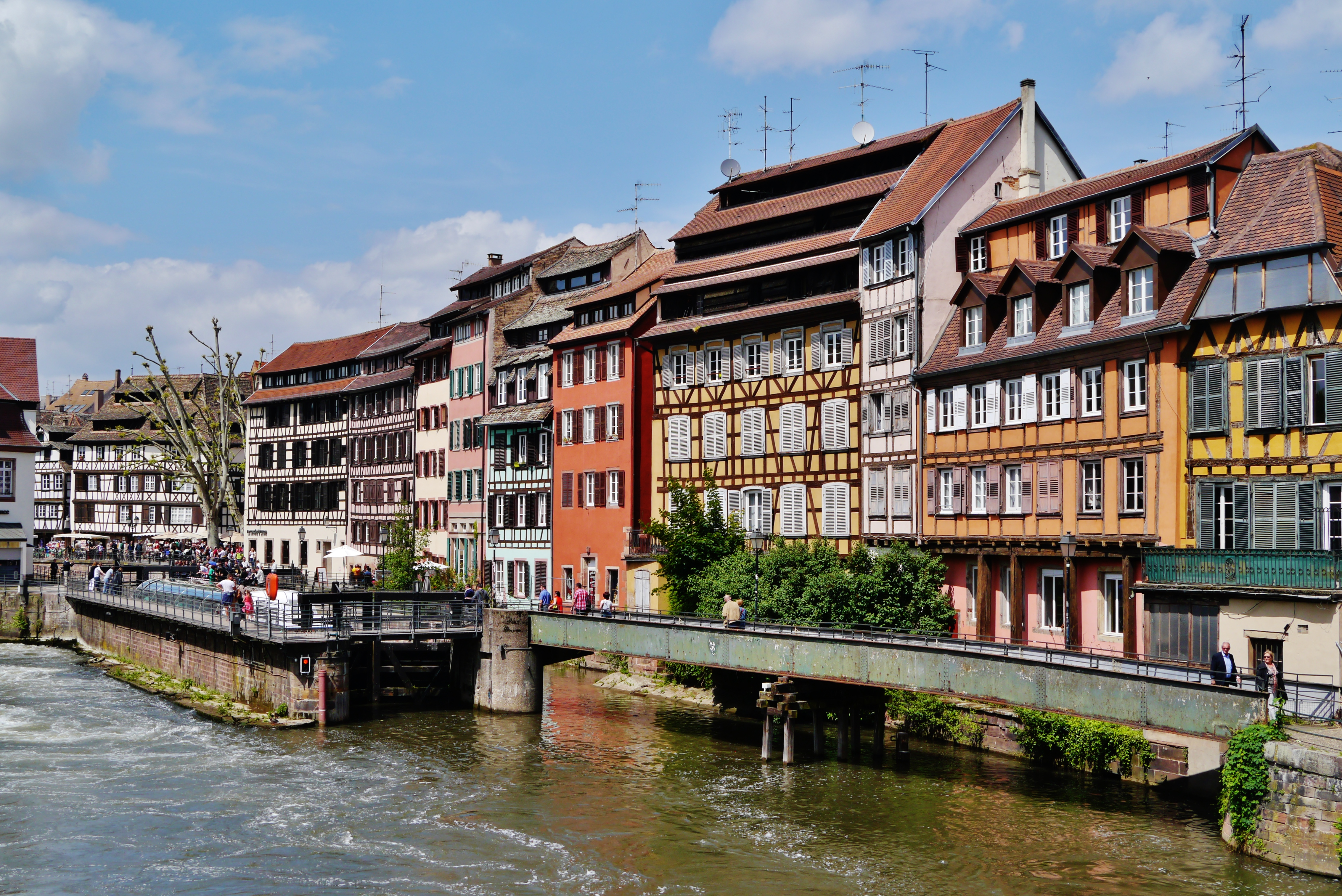 Quarter of La Petite France/Little France, Strasbourg, Alsace, France